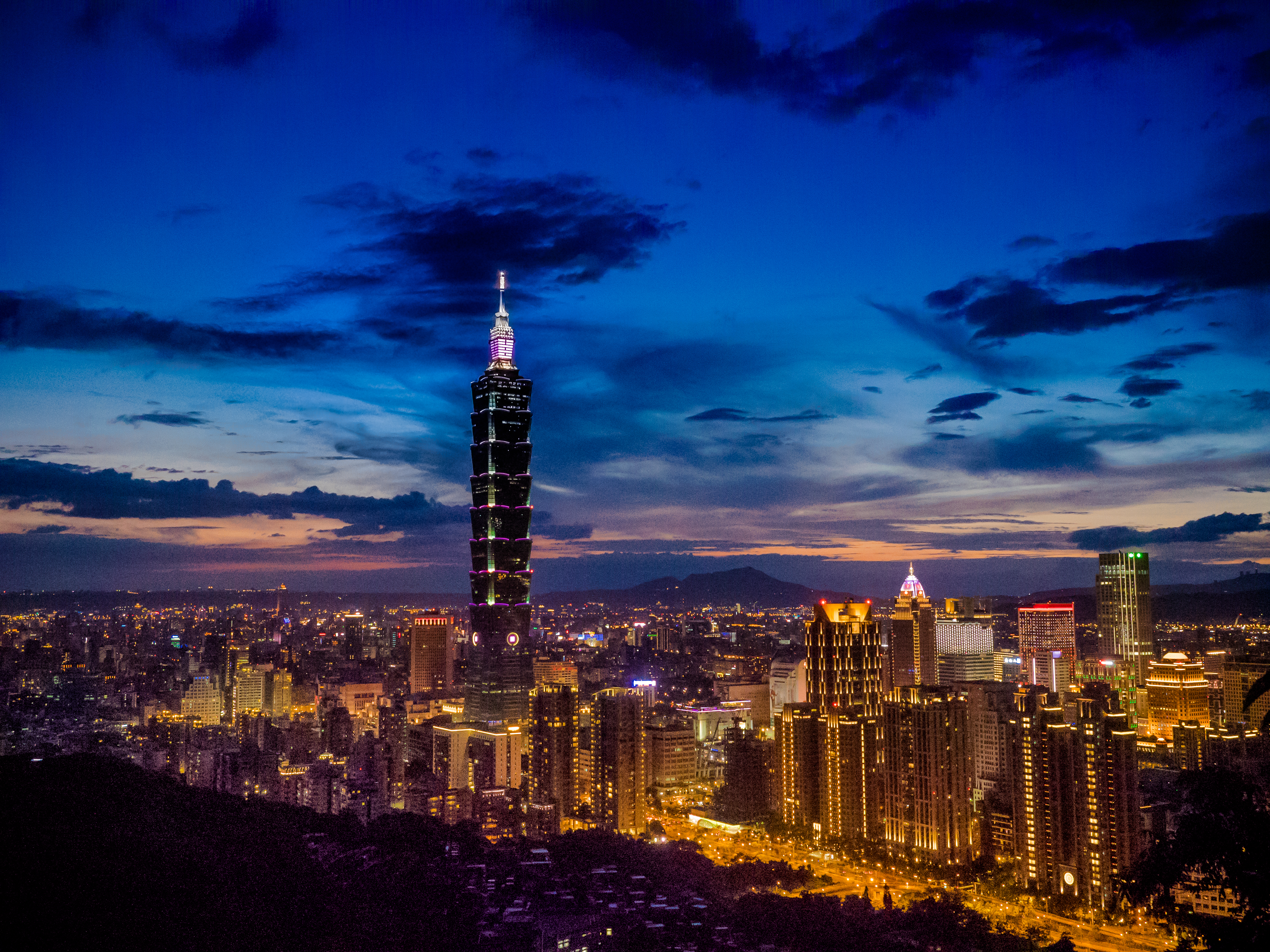 panoramic view of Taipei, Taiwan skyline in 2015